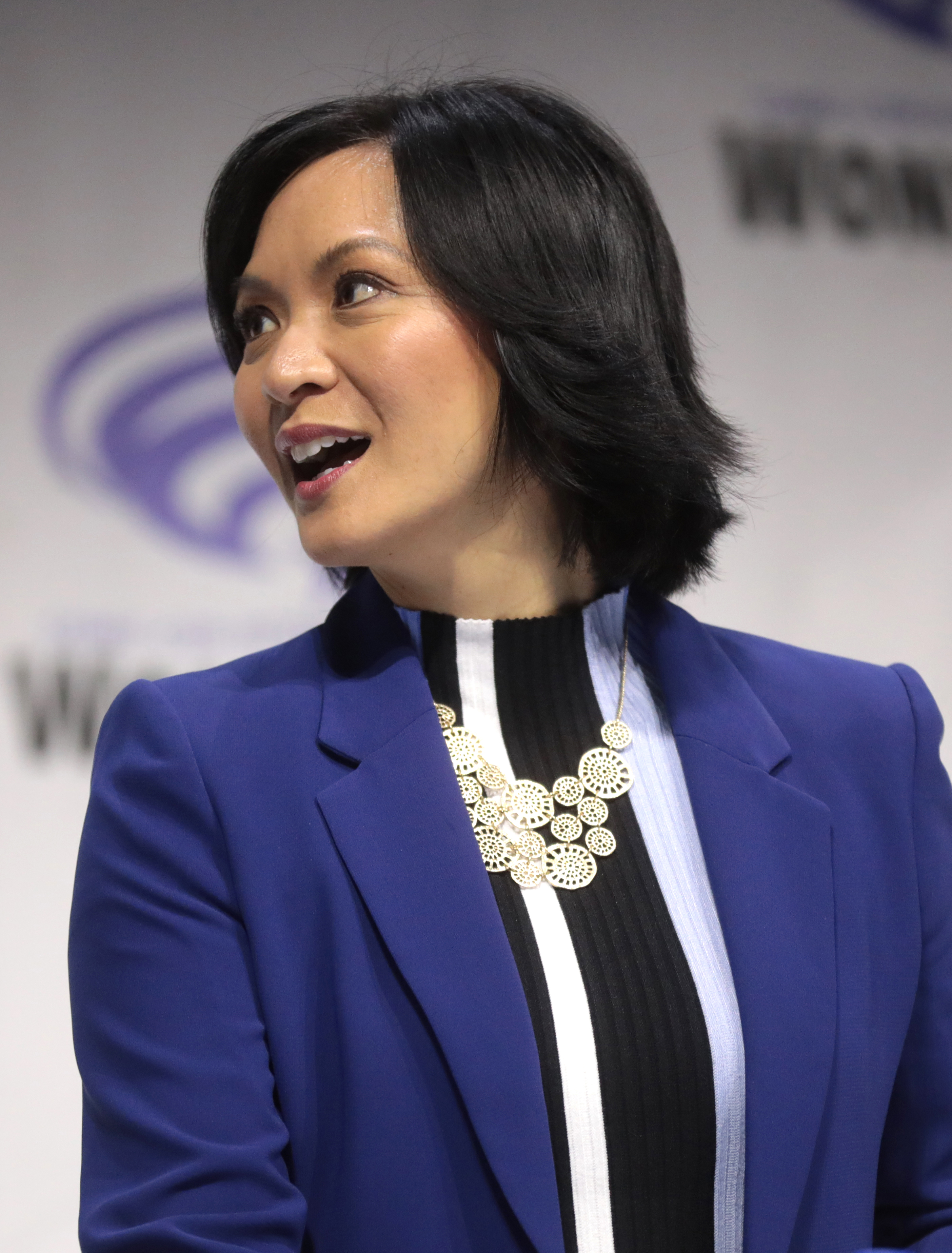 Sumalee Montano at the 2019 WonderCon in Anaheim, California.